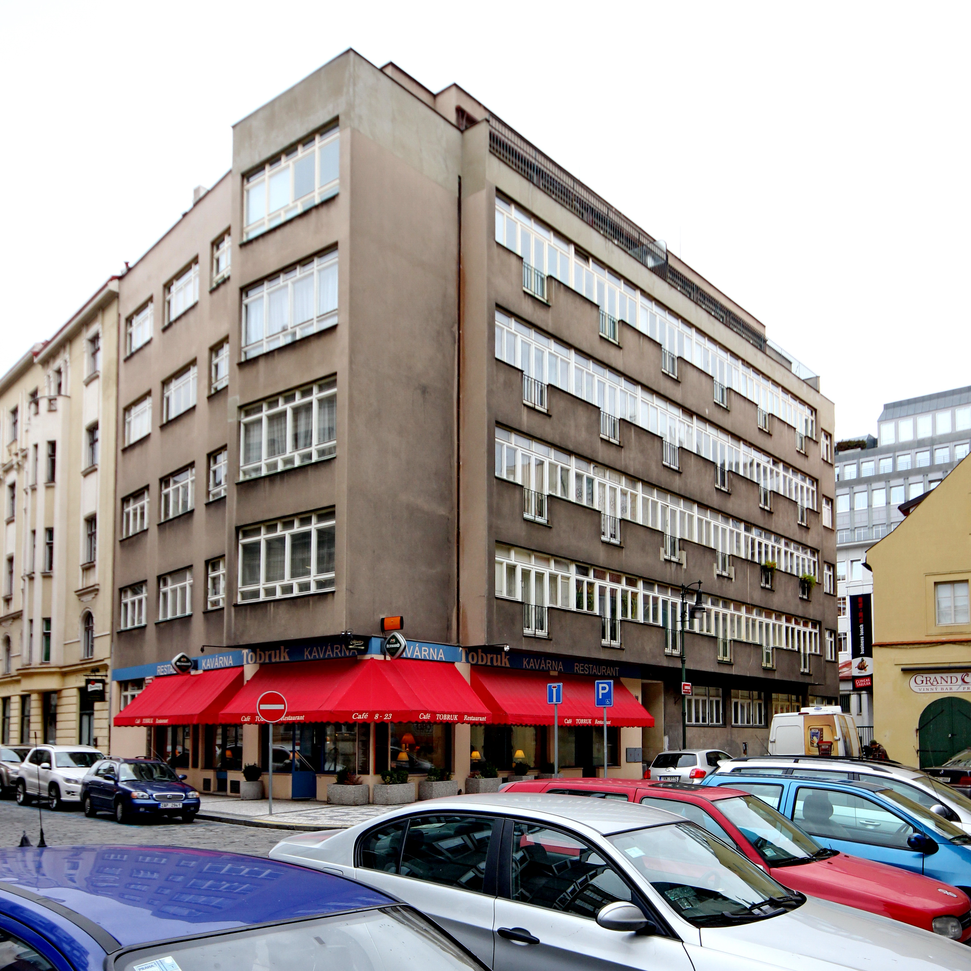 Leopold Ehrmann and František Zelenka: rental house No. 1184, Praha 1-Nové Město, Lodecká 3, 1937-1938